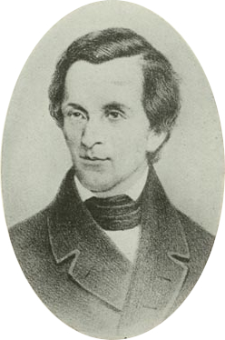 Illinois Governor Thomas Ford; private in Samuel Whiteside's battalion in campaign of 1831. From painting in Executive Mansion, Springfield, Illinois.